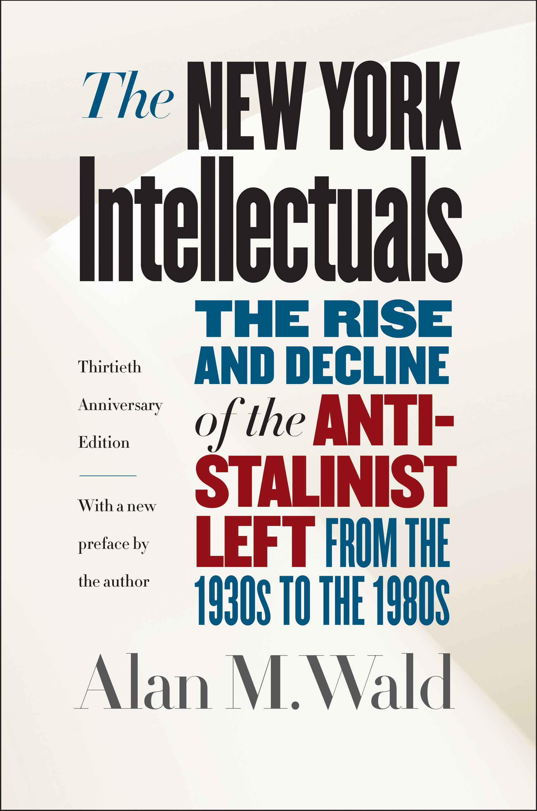 Cover of The New York Intellectuals (2017, 30th edition) by Alan M. Wald, University of North Carolina Press, ISBN 978-1-4696-3594-1